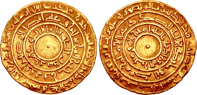 Original caption: ISLAMIC, Fatimids. al-Mu'izz li-Din Allah. AH 341-365 / AD 953-975. AV Dinar (23mm, 4.12 g, 8h). al-Mansuriya mint. Dated AH 343 (AD 954/5). Nicol 391; Miles, Fatimid –; SICA 6, –; Album 697.1. VF.